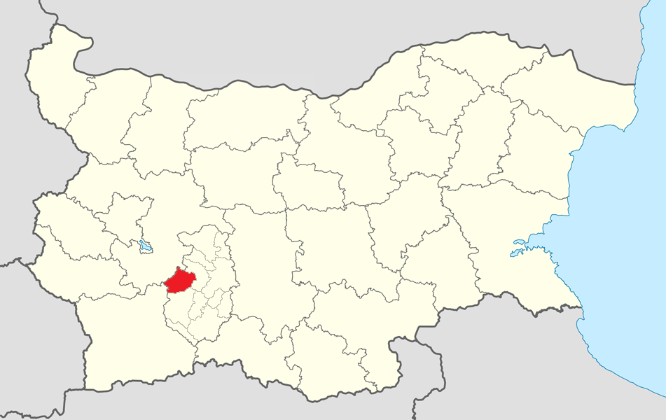 Location map of Belovo Municipality within Bulgaria and Pazardzik province